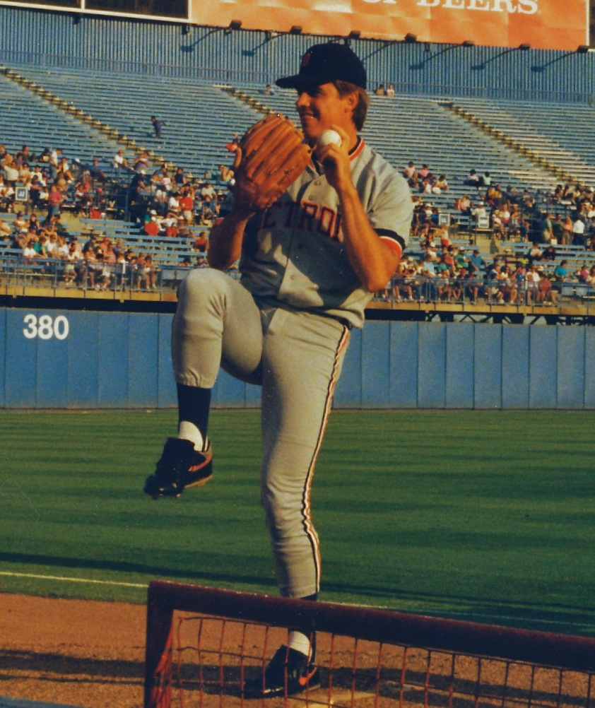 Frank Tanana warms up before the game in the Tigers bull pen while the pitching coach watches. Tanana would pitch 8 shutout innings against the Rangers.